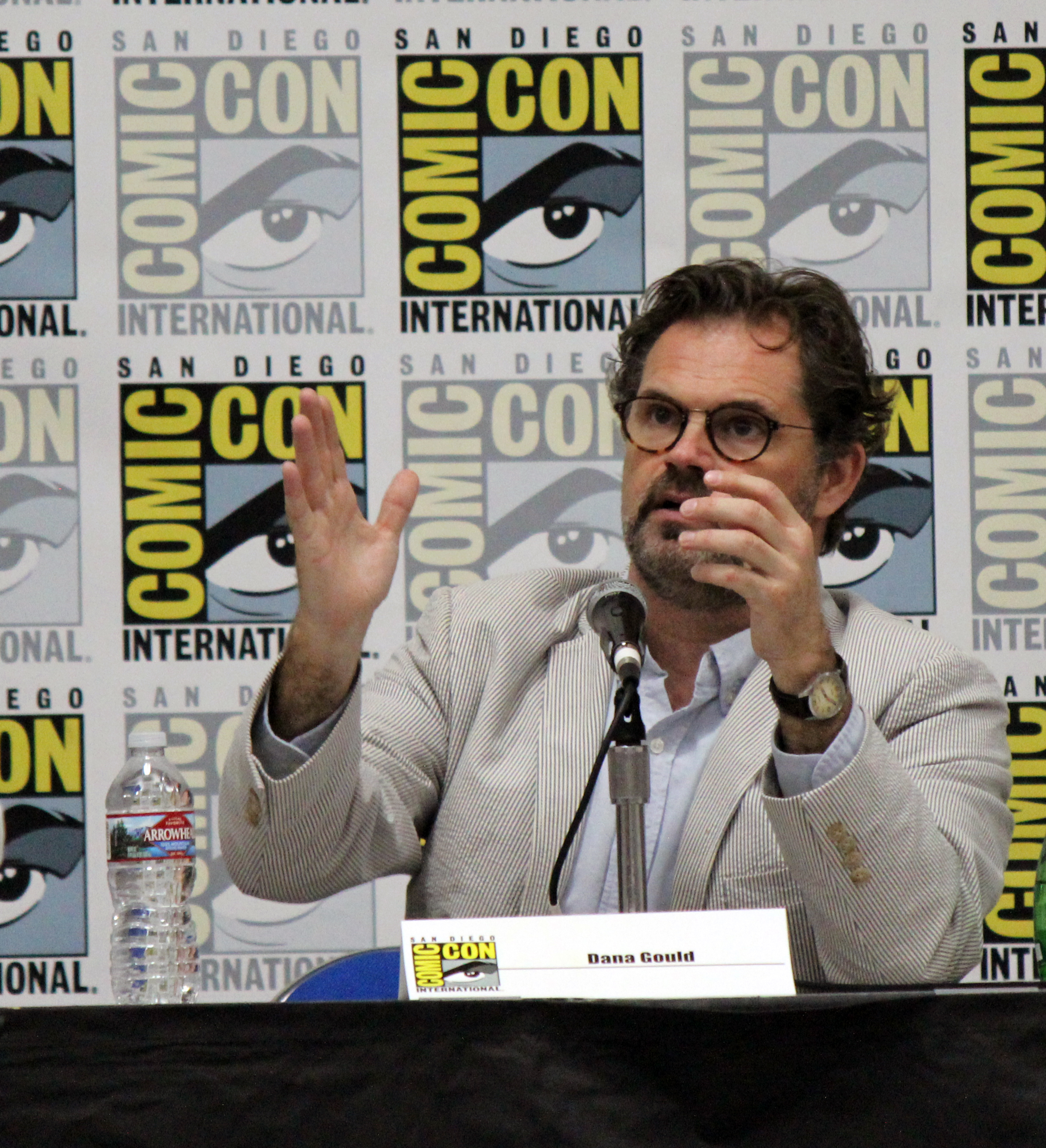 Dana Gould speaking at a Stan Against Evil panel during the 2017 Comic-Con International at the San Diego Convention Center.